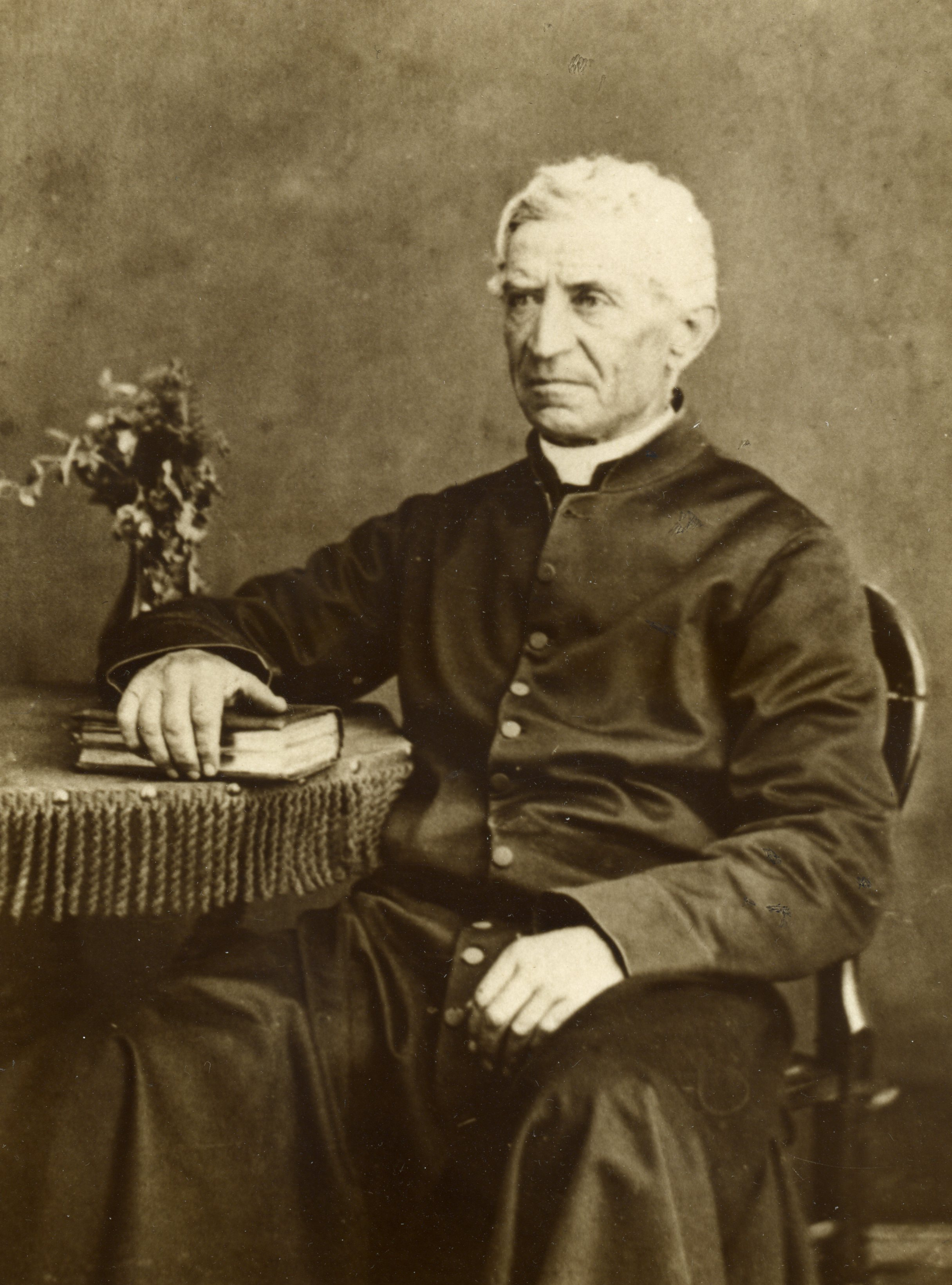 Photographic portrait of Canon Raffaele Martelli (1811 - 1880) in later life.